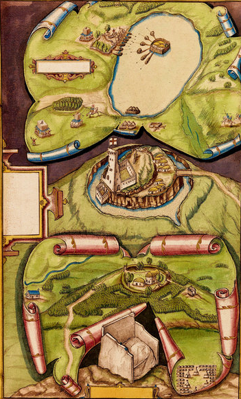 Stone inauguration chair of the O'Neills at Tullahogue. Map made by Richard Bartlett in 1602. National Library of Ireland